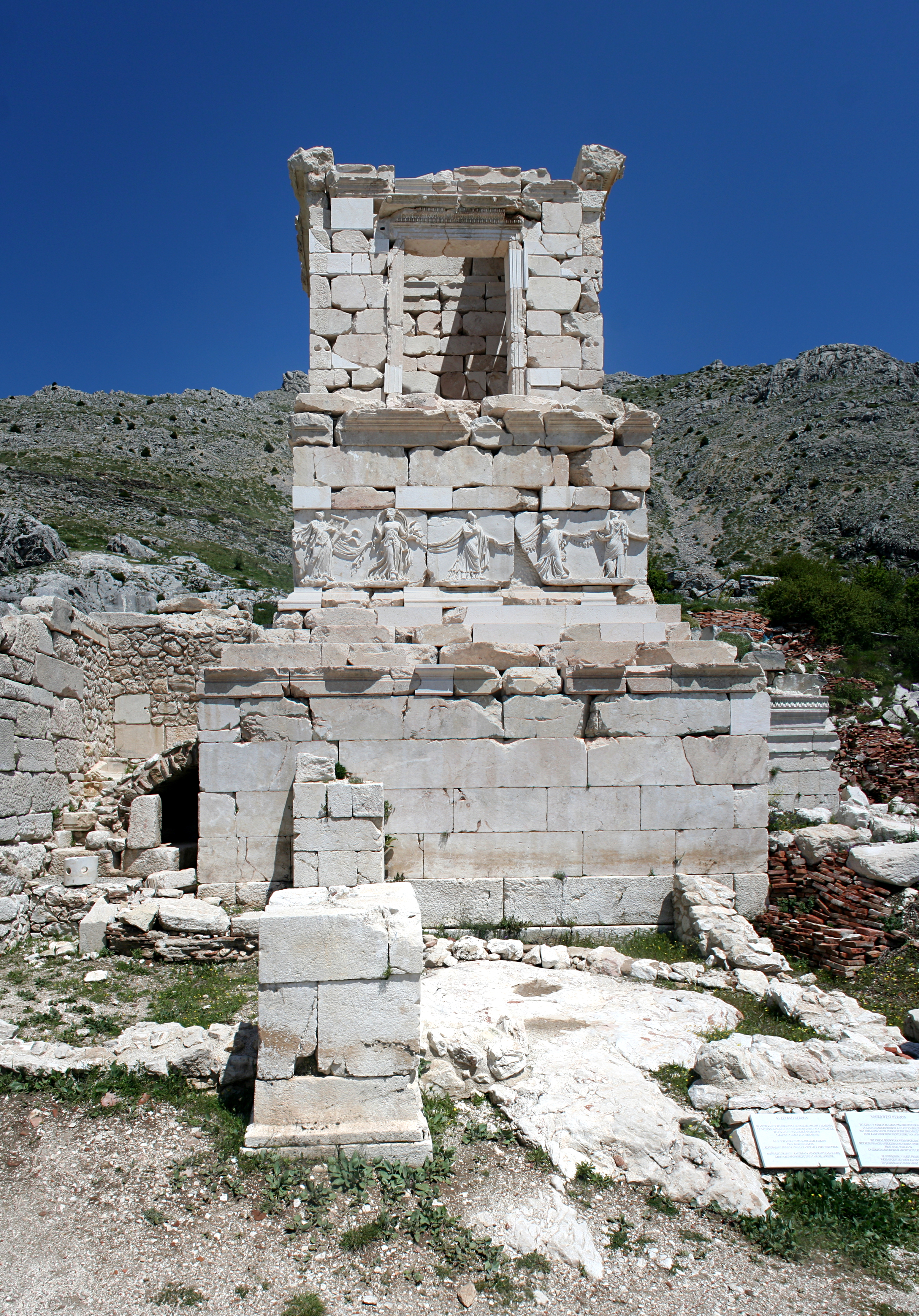 Sagalassos - Northwestern Heroon